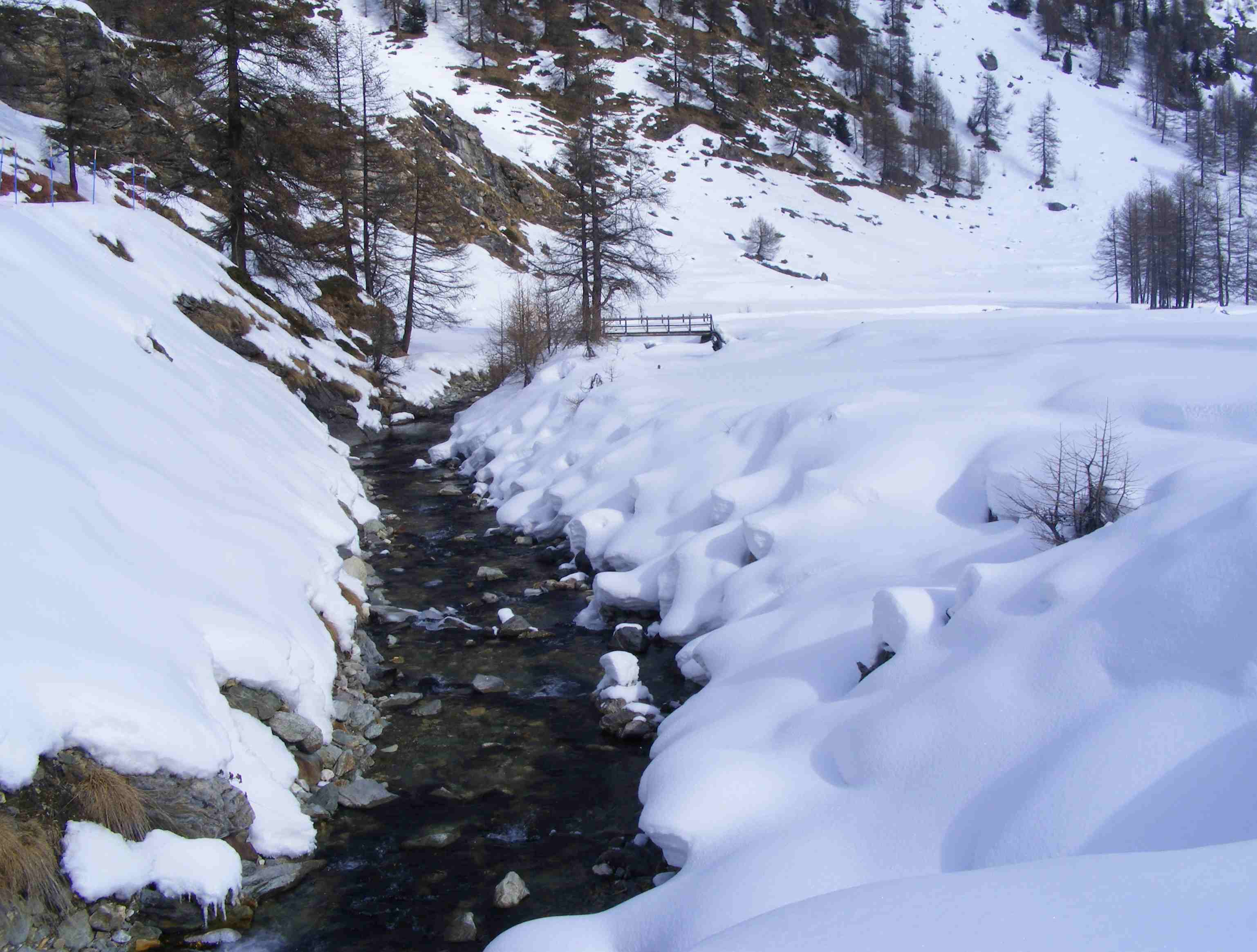 Saint-Barthélemy creek at 1950 m (AO, Italy)